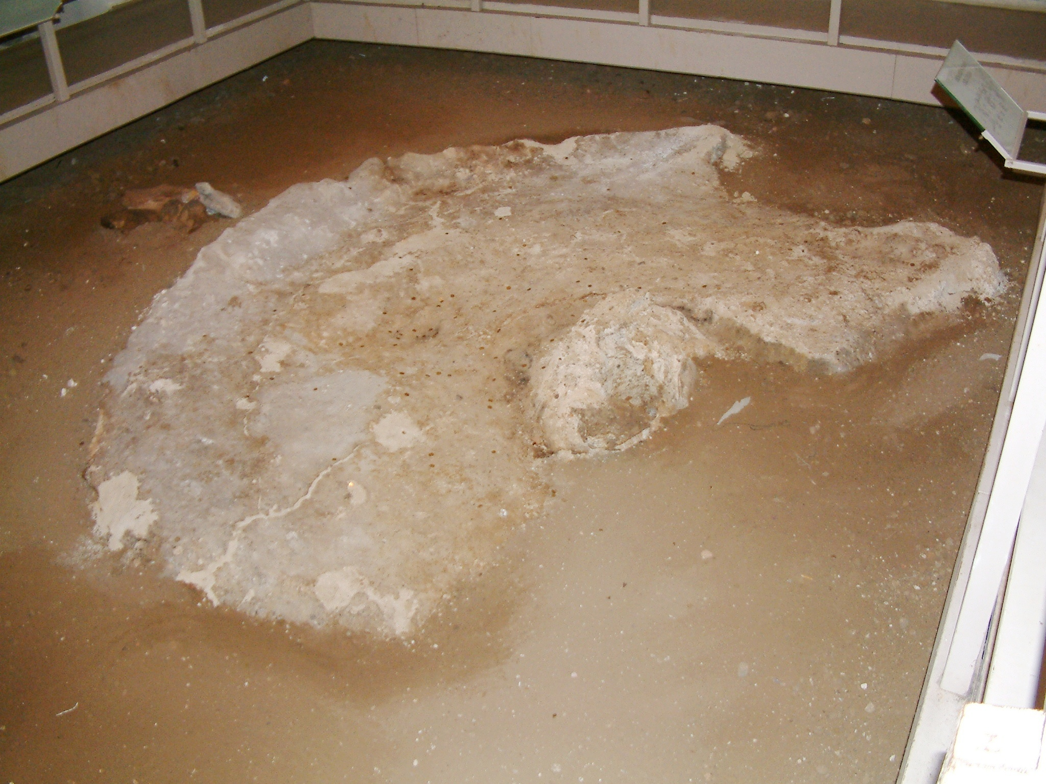 Underground of Poznań Archcathedral Basilica of St. Peter and St. Paul, hypotetical baptystery.